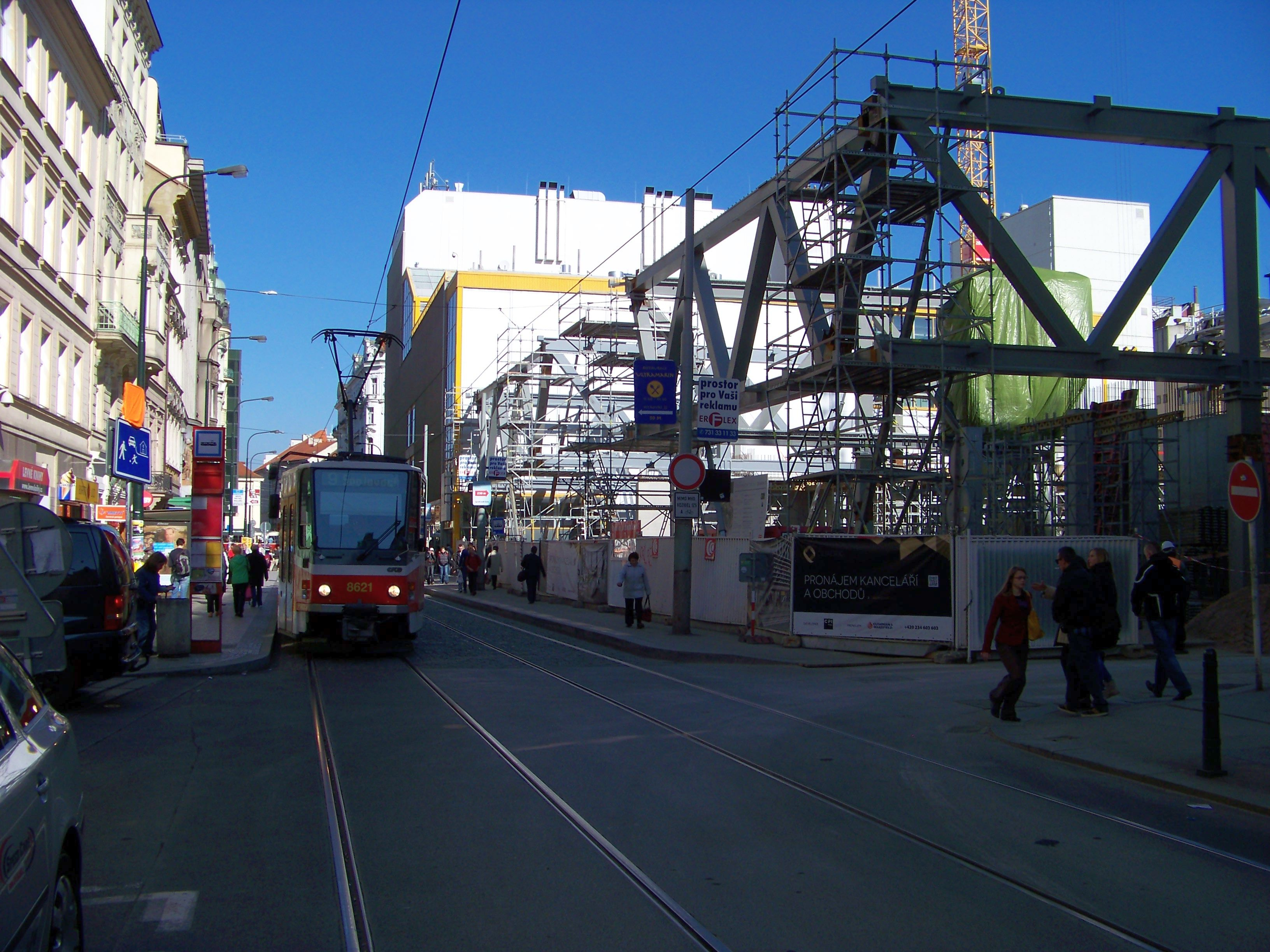 Prague-New Town. Spálená, Quadrio building.